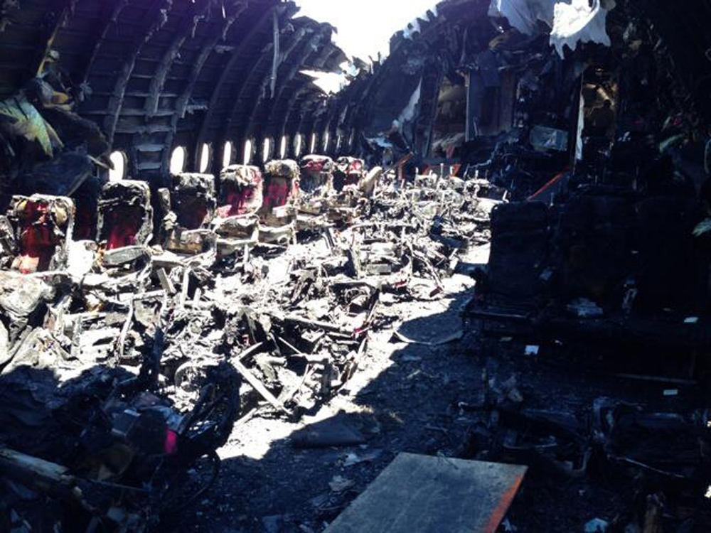 Photo of charred cabin interior of Asiana flight 214.